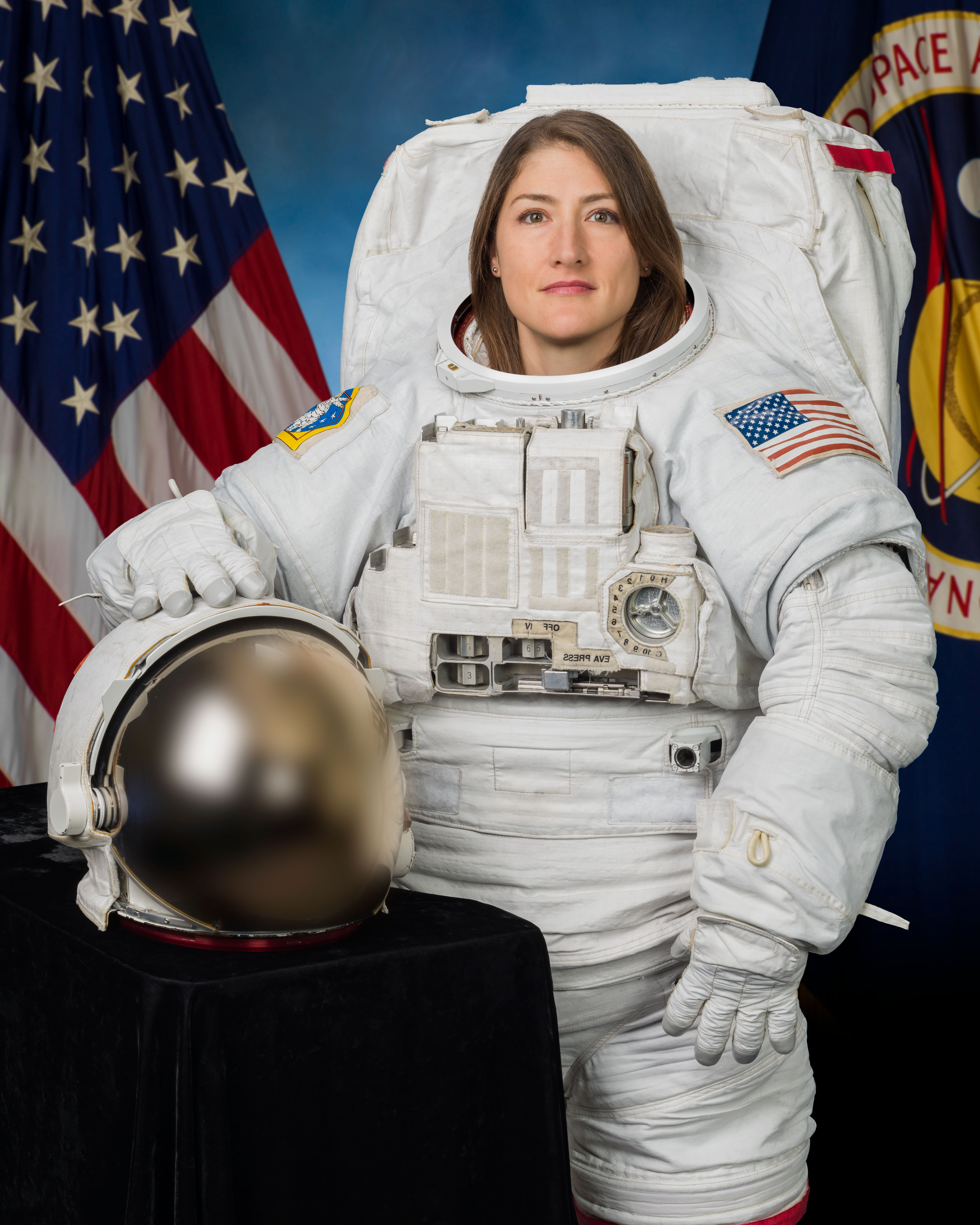 Official portrait of NASA astronaut Christina Koch.